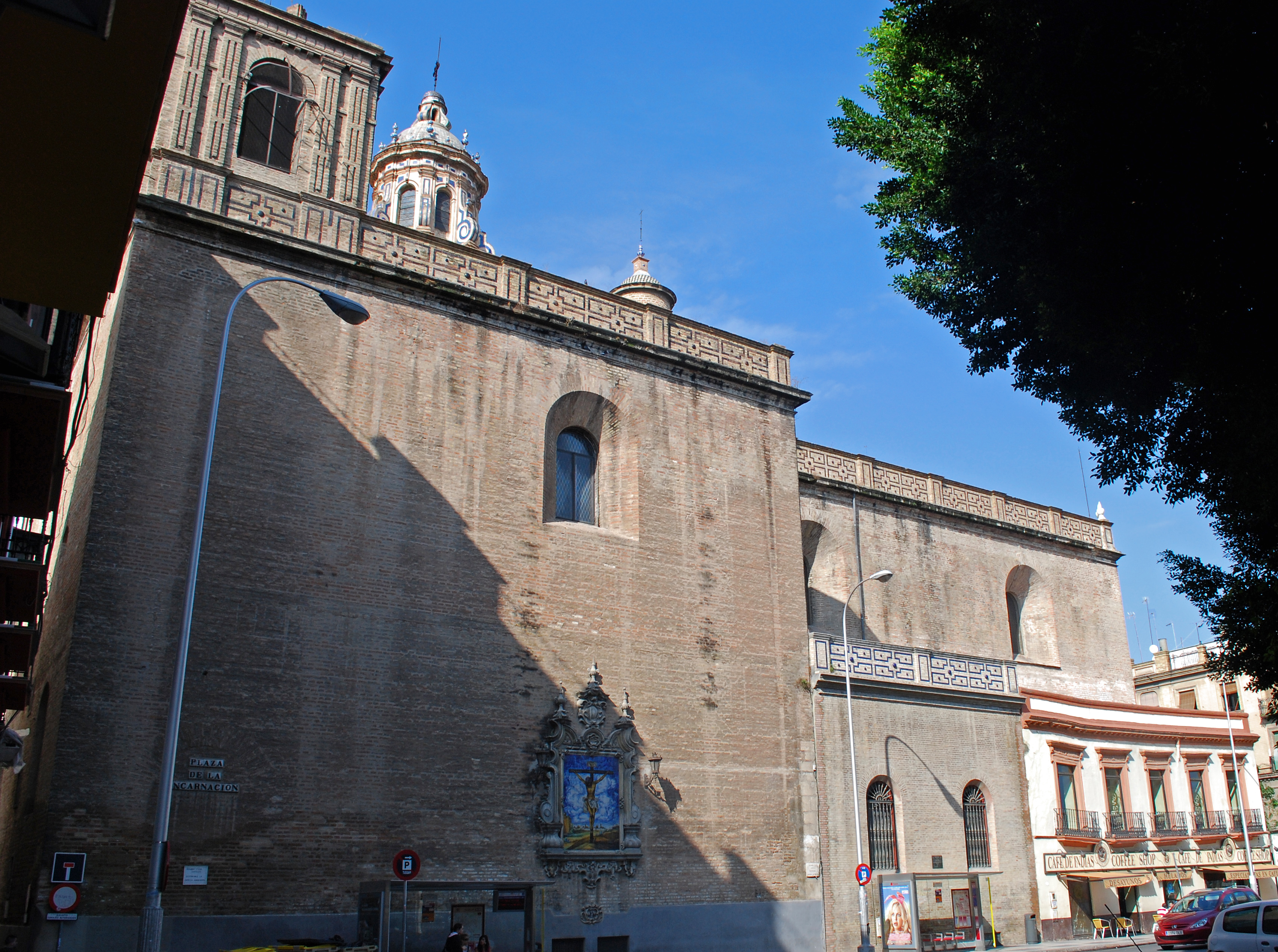 Church of Anunciación, Seville